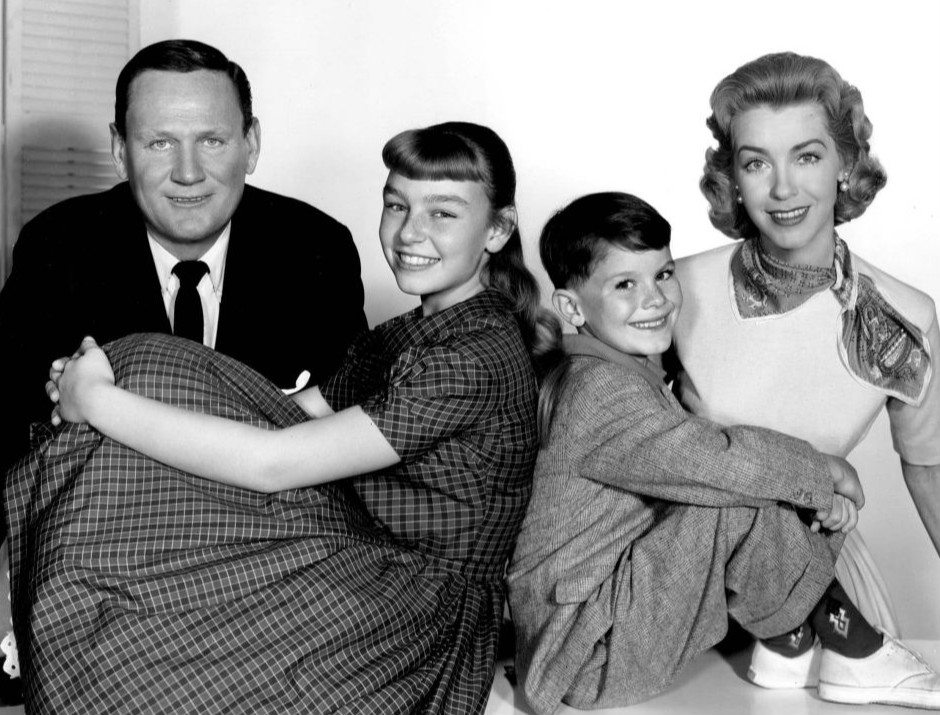 Cast photo from the short-lived television program Peck's Bad Girl. From left: Wendell Corey, Patty McCormack, Ray Farrell, Marsha Hunt.